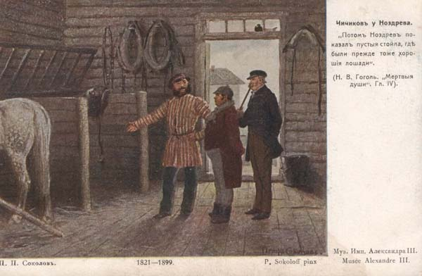 Chichikov Visiting Nozdrev. A pre-revolutionary Russian postcard.